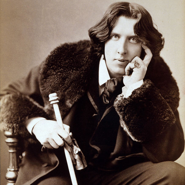 Three quarter length portrait of Oscar Wilde(en) by Napoleon Sarony(en). 1 photographic print on card mount : albumen.